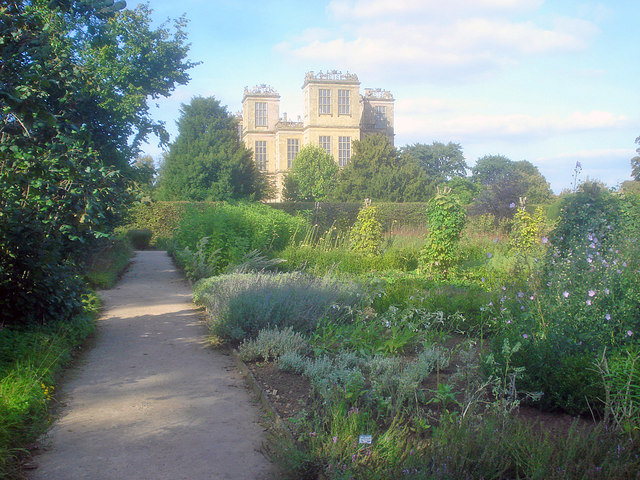 The Herb Garden Originally planted in the 1870s by Lady Louisa Egerton, this garden was recreated in the late 1960s by the National Trust, largely following the original design. At the back of this section is the Hornbeam Alley, which divides the garden into rooms. The herb garden is one of the largest in the country, containing over 150 different herbs.